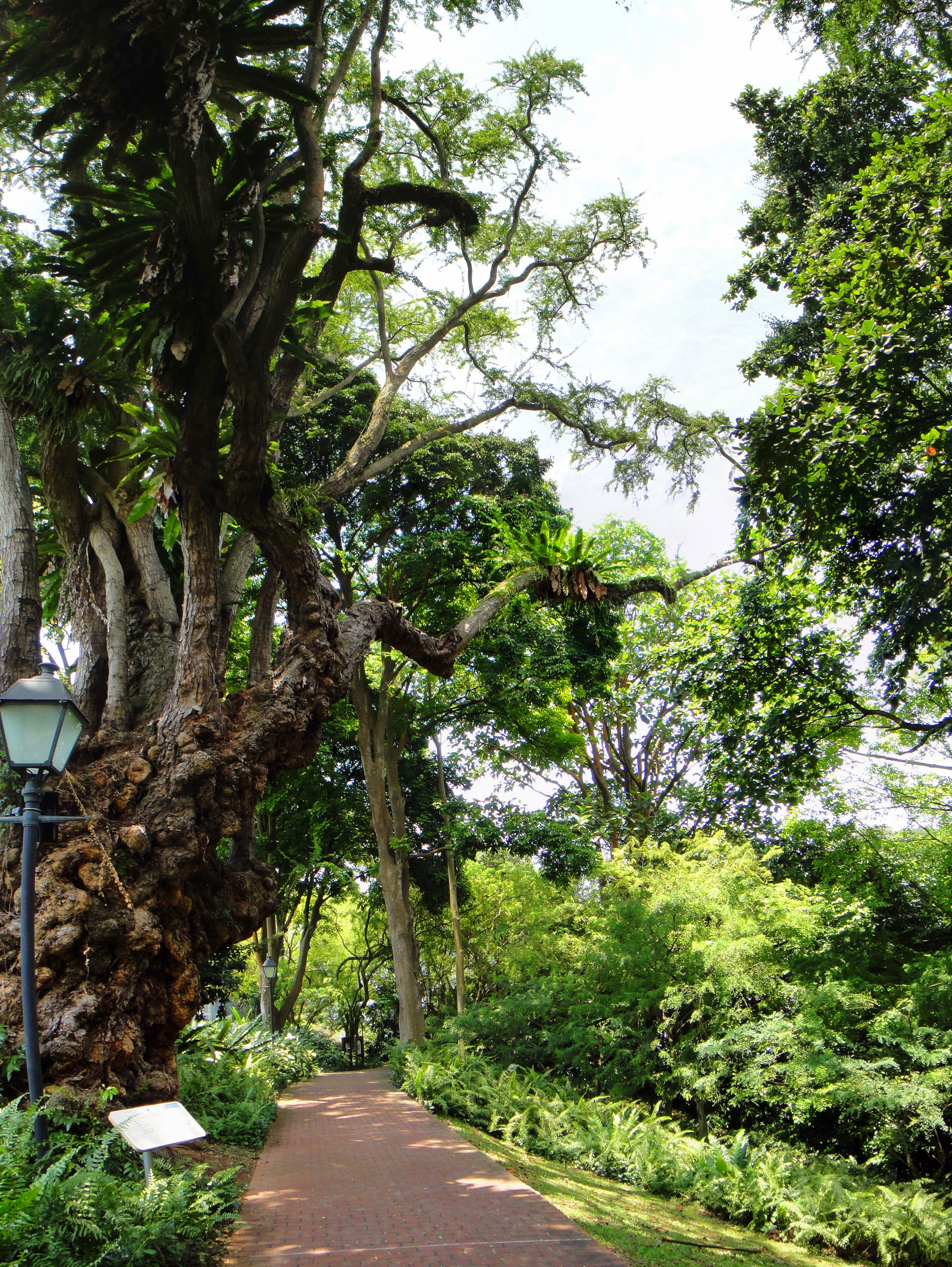 Fort Canning Park, Singapore.